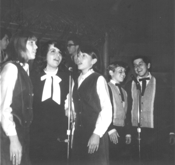 The Scuzzies of 1965 - Five member singing group